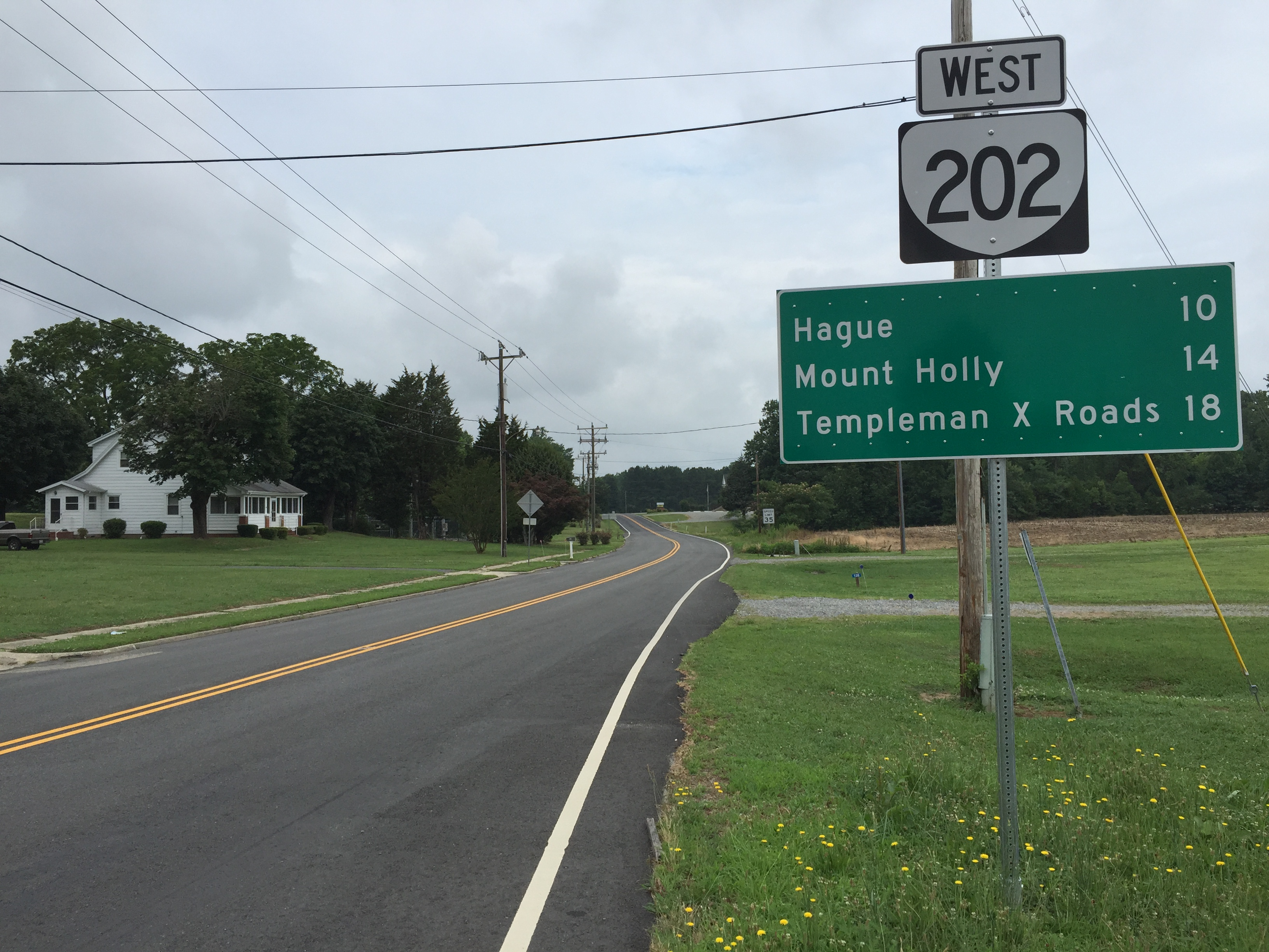 View west along Virginia State Route 202 (Hampton Hall Road) at Harryhogan Road (Virginia State Secondary Route 712) in Callao, Northumberland County, Virginia